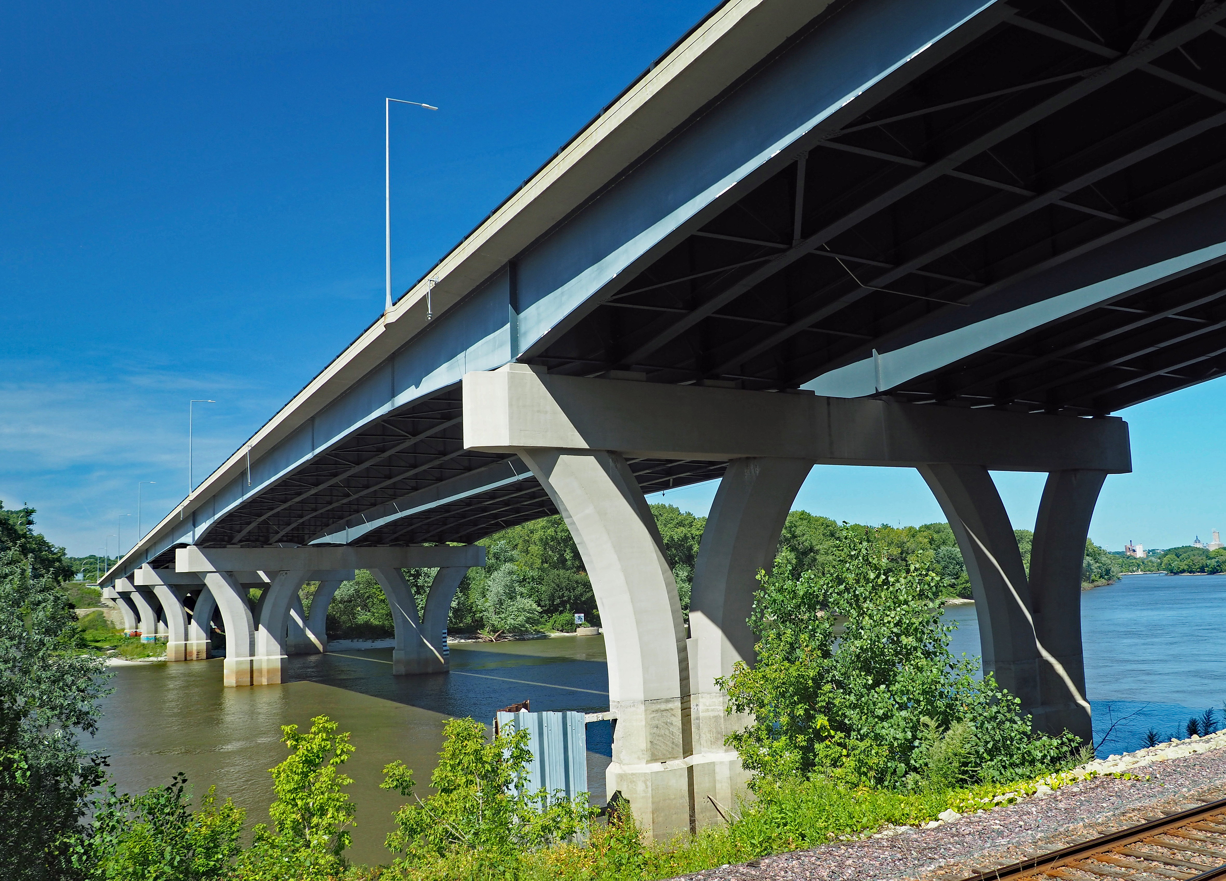 Lexington Bridge from the Big River Regional Trail, Lilydale, Minnesota, USA. Viewed from the south.